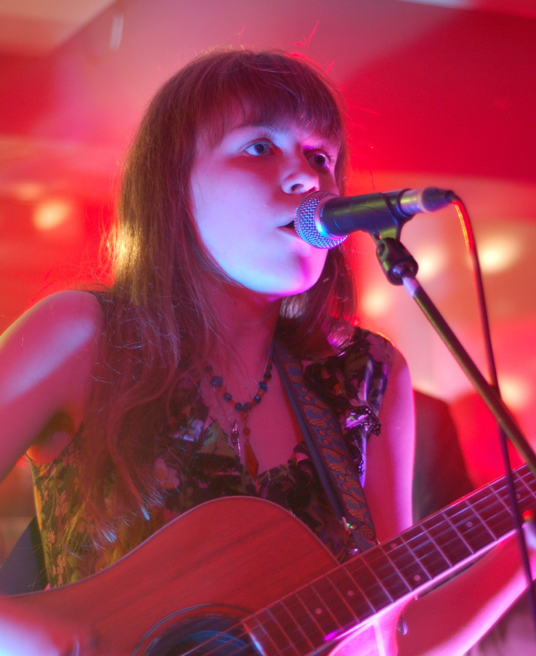 Alessi's Ark performing at the Social, London, 2009 creative commons license author: 金娜 Kim S